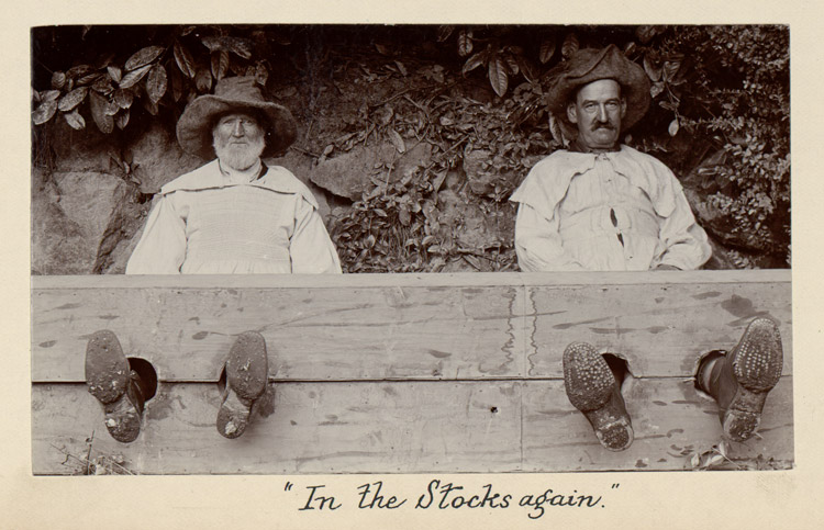 Ffotograffydd/Photographer: P. B. Abery (1877?-1948) & Wallace Jones Dyddiad/Date: 11th August 1909 Cyfrwng/Medium: Photographic print Cyfeiriad/Reference: pba02073 Rhif cofnod / Record no.: 3590090 This image is taken from the Builth Wells Historical Pageant photograph album, which includes approximately 160 photographs, newspaper cuttings and other ephemera of the majestic pageant which was performed at the grounds of Llanelwedd Hall on 11 August 1909. The photographs were taken by P B Abery and Wallace Jones. The pageant was an epic production. According to a transcript included in the album, it took a year to prepare, over a 1000 people took part in the event, and it is reported to have been witnessed by a crowd of around 5000. Daw'r ffotograff yma o lyfr ffoto Pasiant Llanfair ym Muallt, sy'n cynnwys tua 160 o ffotograffau, toriadau’r wasg ac effemera sy’n ymwneud â’r pasiant mawreddog a berfformiwyd ar faes Neuadd Llanelwedd ar 11 Awst 1909. Tynnwyd y ffotograffau gan P B Abery a Wallace Jones. Roedd y pasiant yn ddigwyddiad ysblennydd. Yn ôl adysgrif sydd wedi ei chynnwys yn yr albwm, cymerodd flwyddyn i baratoi’r digwyddiad, bu 1000 o bobl yn rhan o’r paratoadau, ac adroddir fod tyrfa o tua 5000 yn ei wylio. Rhagor o wybodaeth am gasgliad P B Abery yn Llyfrgell Genedlaethol Cymru More information about the P B Abery Collection at the National Library of Wales